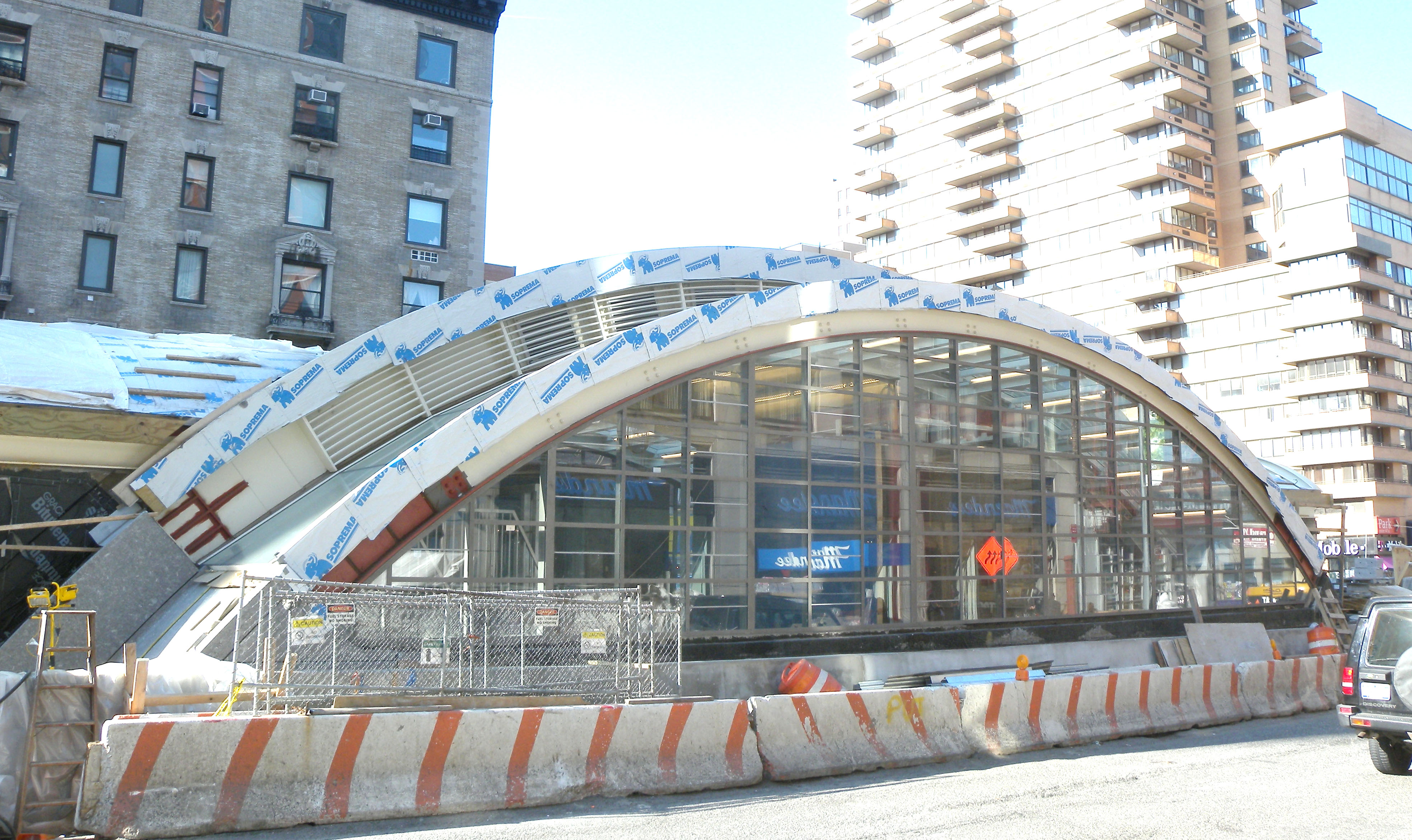 Looking northwest across Broadway at File:Bwy 95 IRT headhouse 2009.jpg, now with glass, on a sunny afternoon.